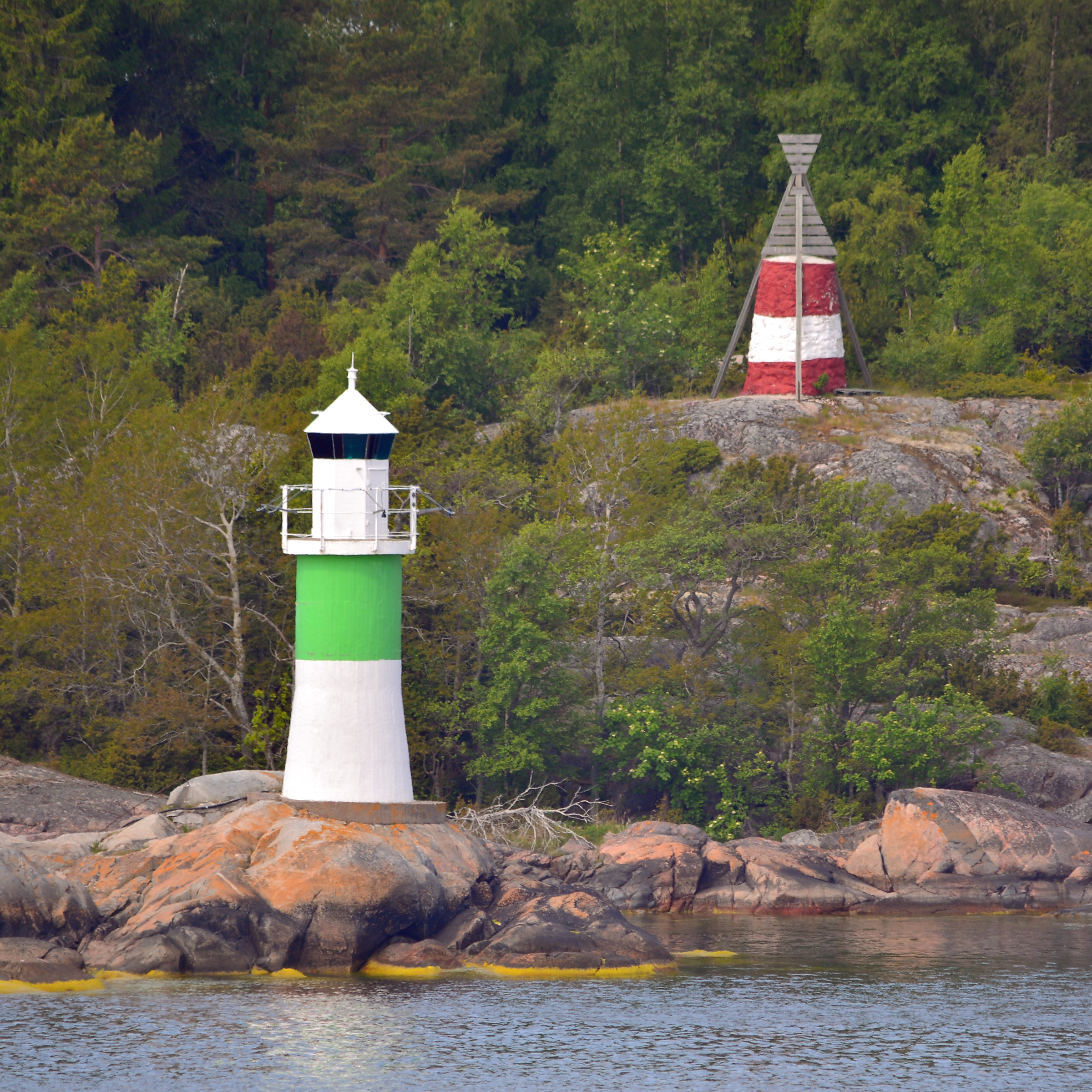 The lighthouse and daymark at Kapellskär, Stockholm archipelago, Sweden.